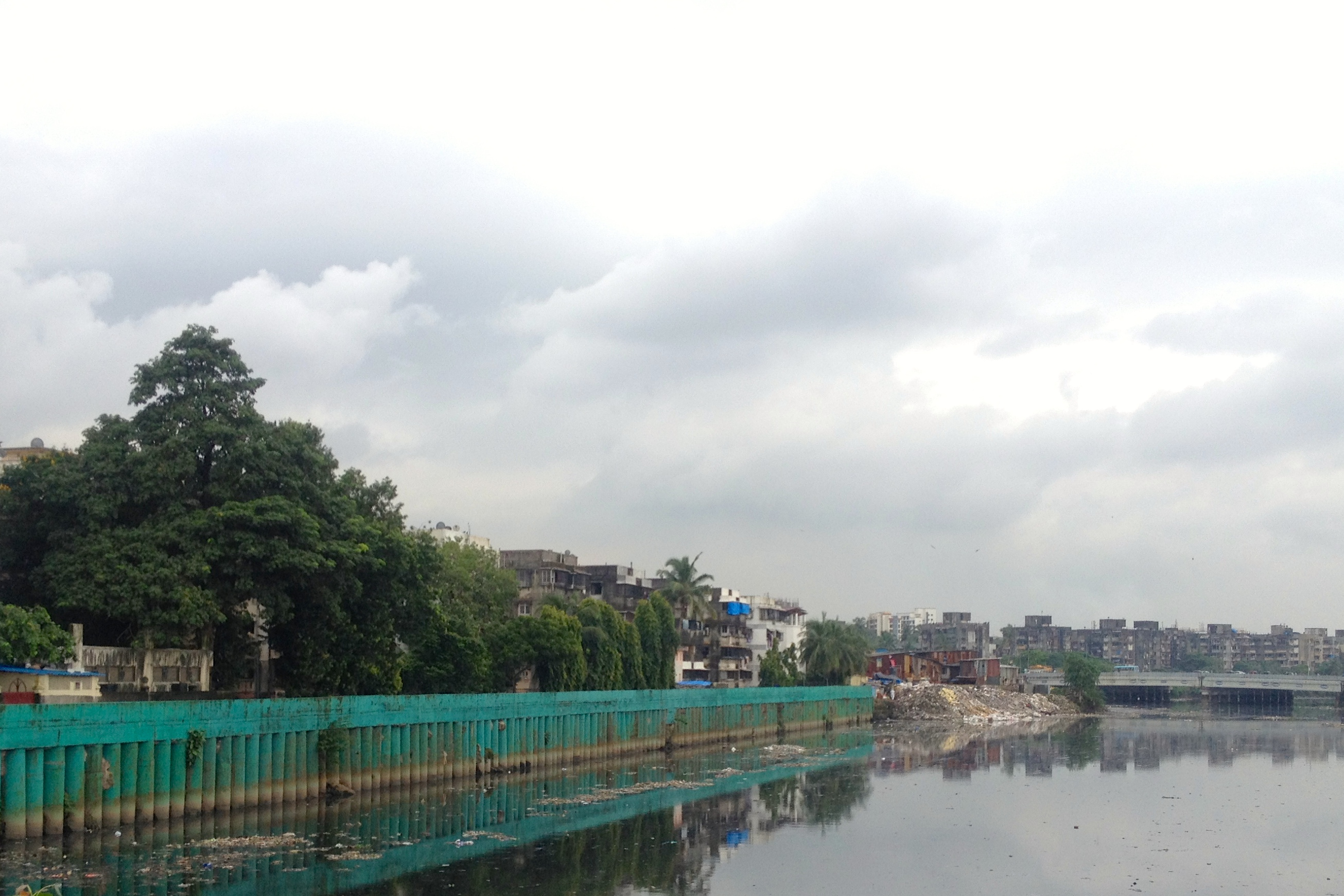 Mithi river in Mumbai showing the concrete pillars used in increasing its width